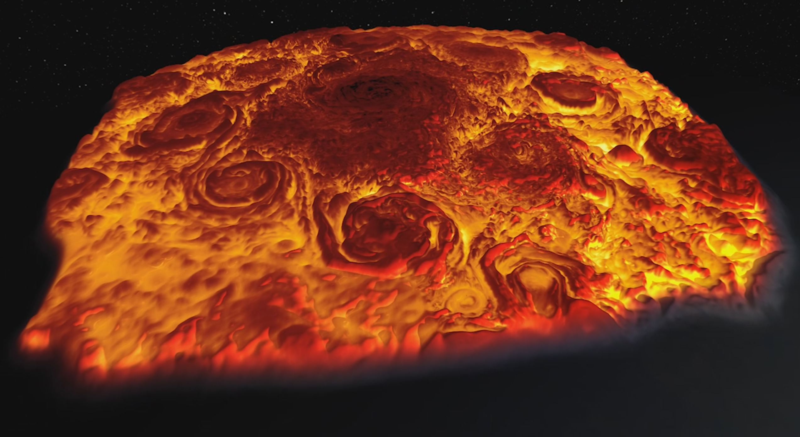 This infrared 3-D image of Jupiter's north pole was derived from data collected by the Jovian Infrared Auroral Mapper (JIRAM) instrument aboard NASA's Juno spacecraft.